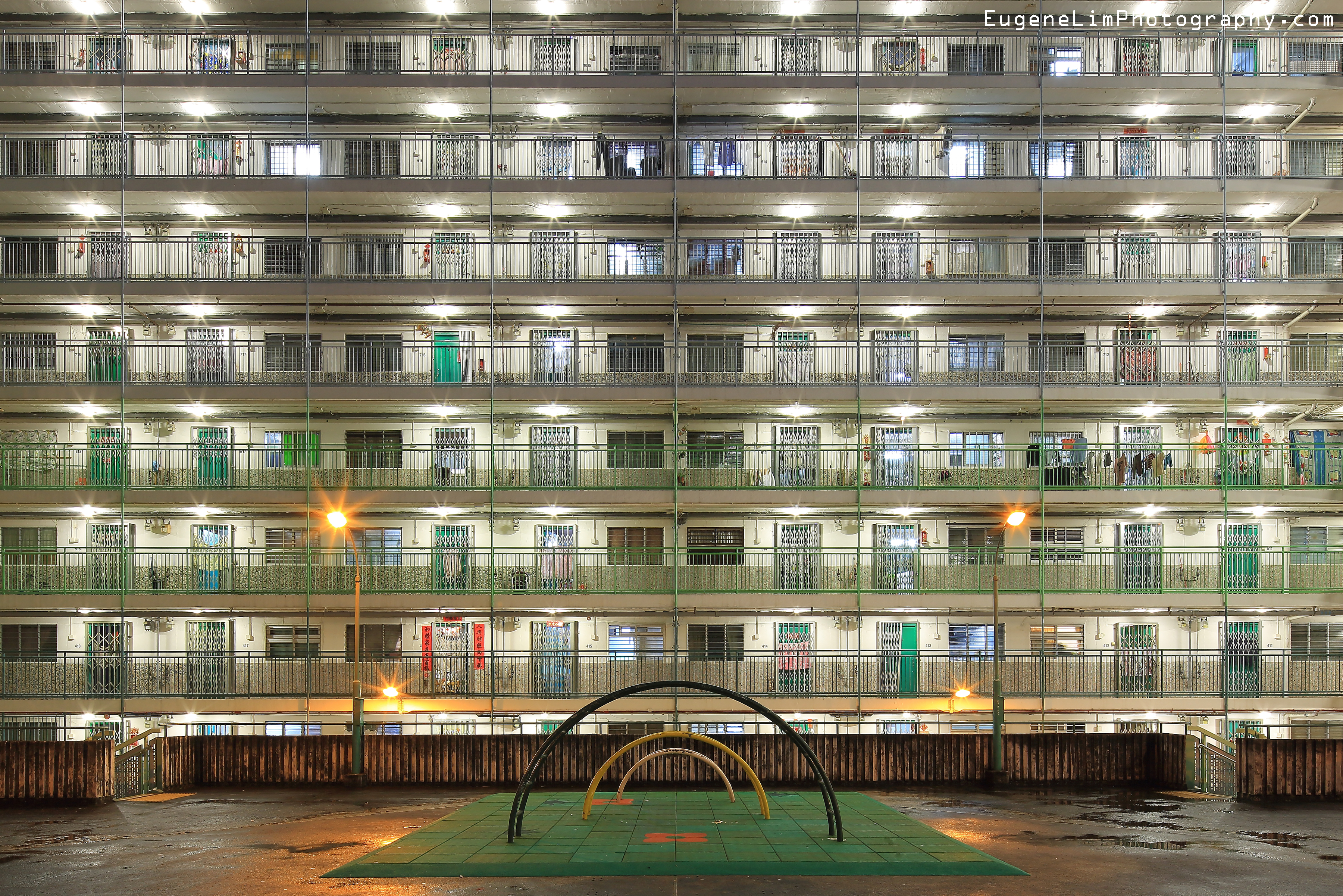 Nam Shan Estate Podium Playground Night View, Shek Kip Mei, Hong Kong